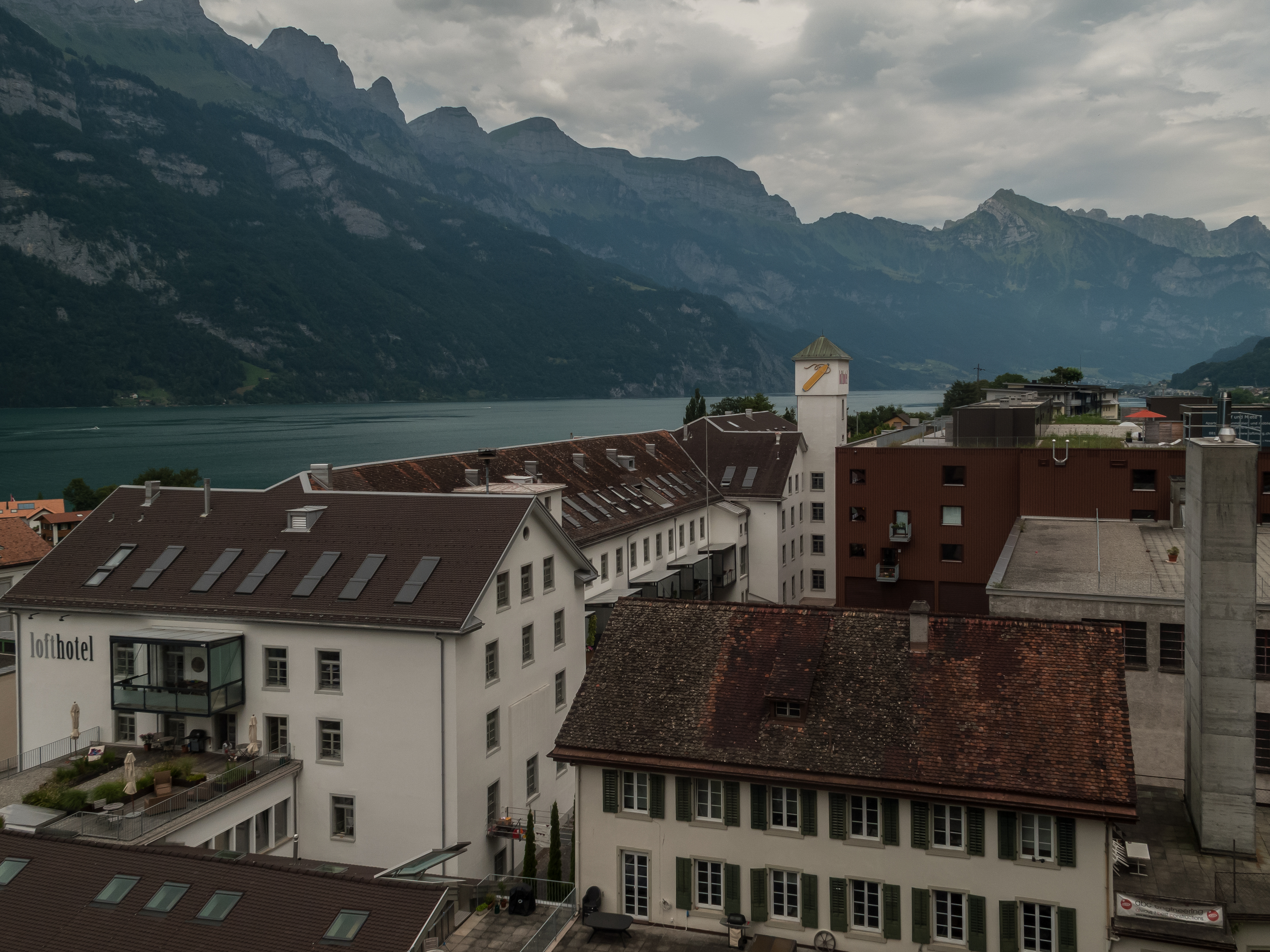 Murg, view to a street with lake (die Walensee) in background